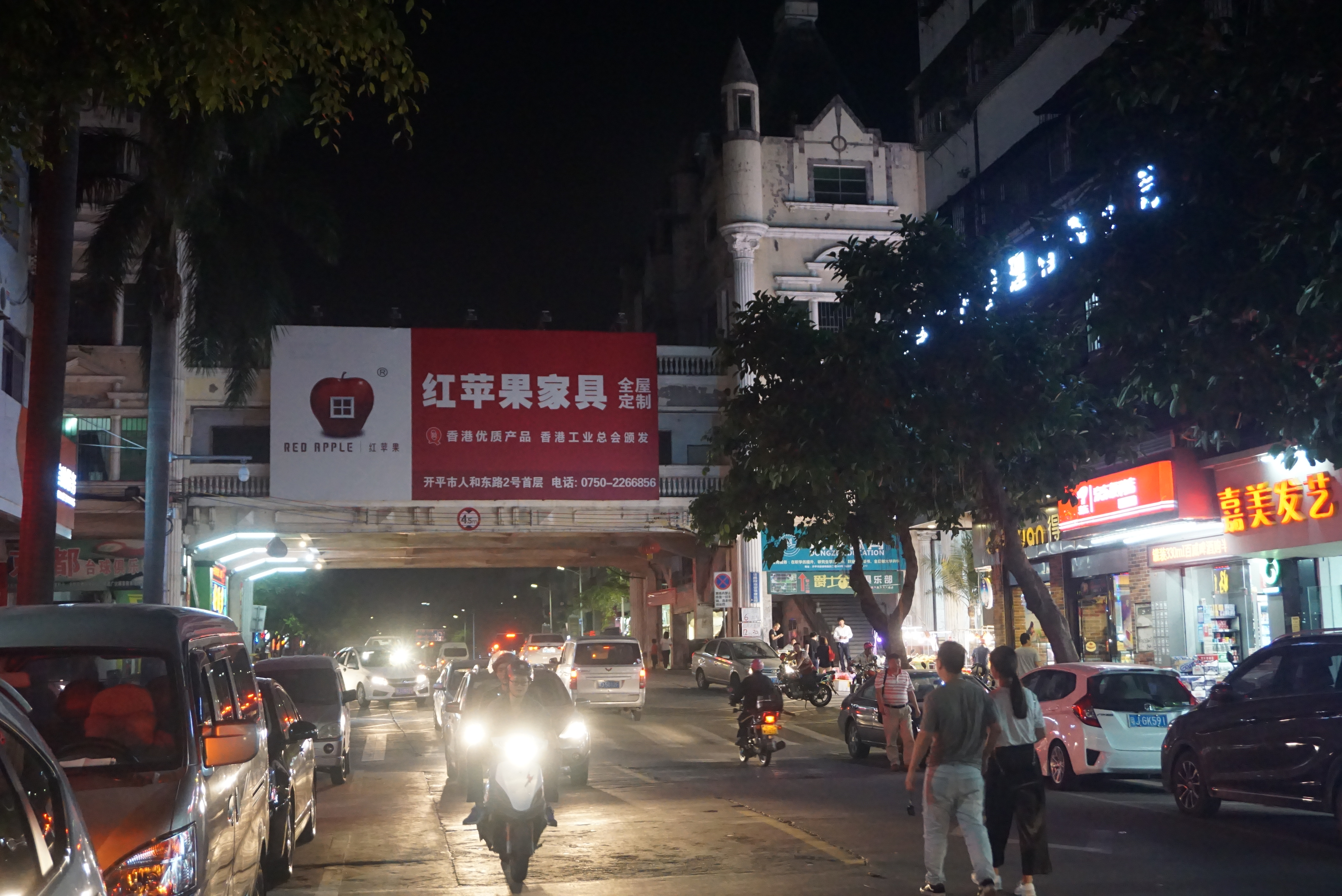 A street at night in downtown, Kaiping, Guangdong Province